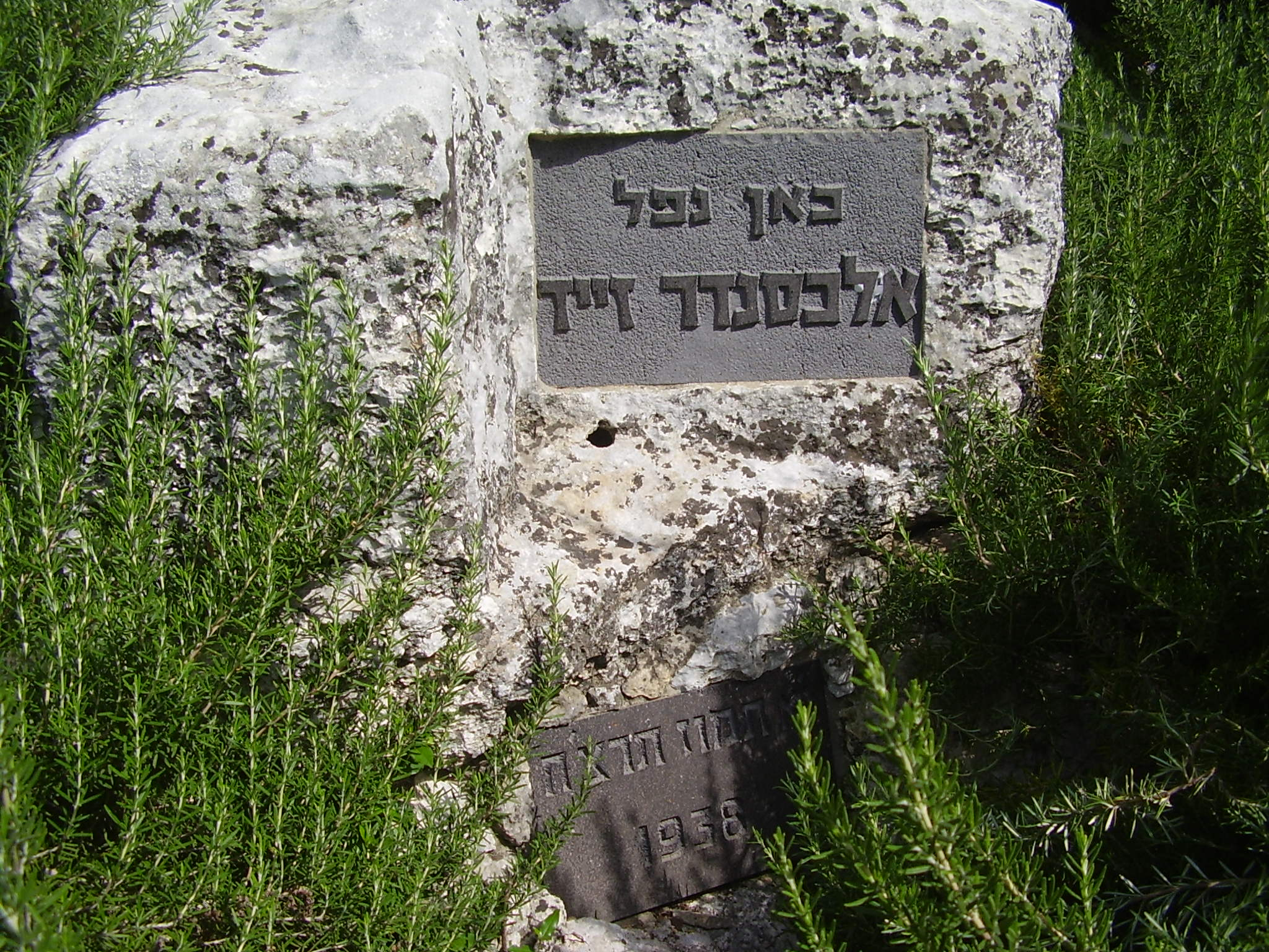 the spot were alexander zeid was killed